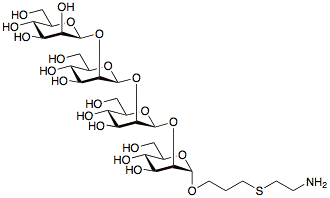 TetraMan